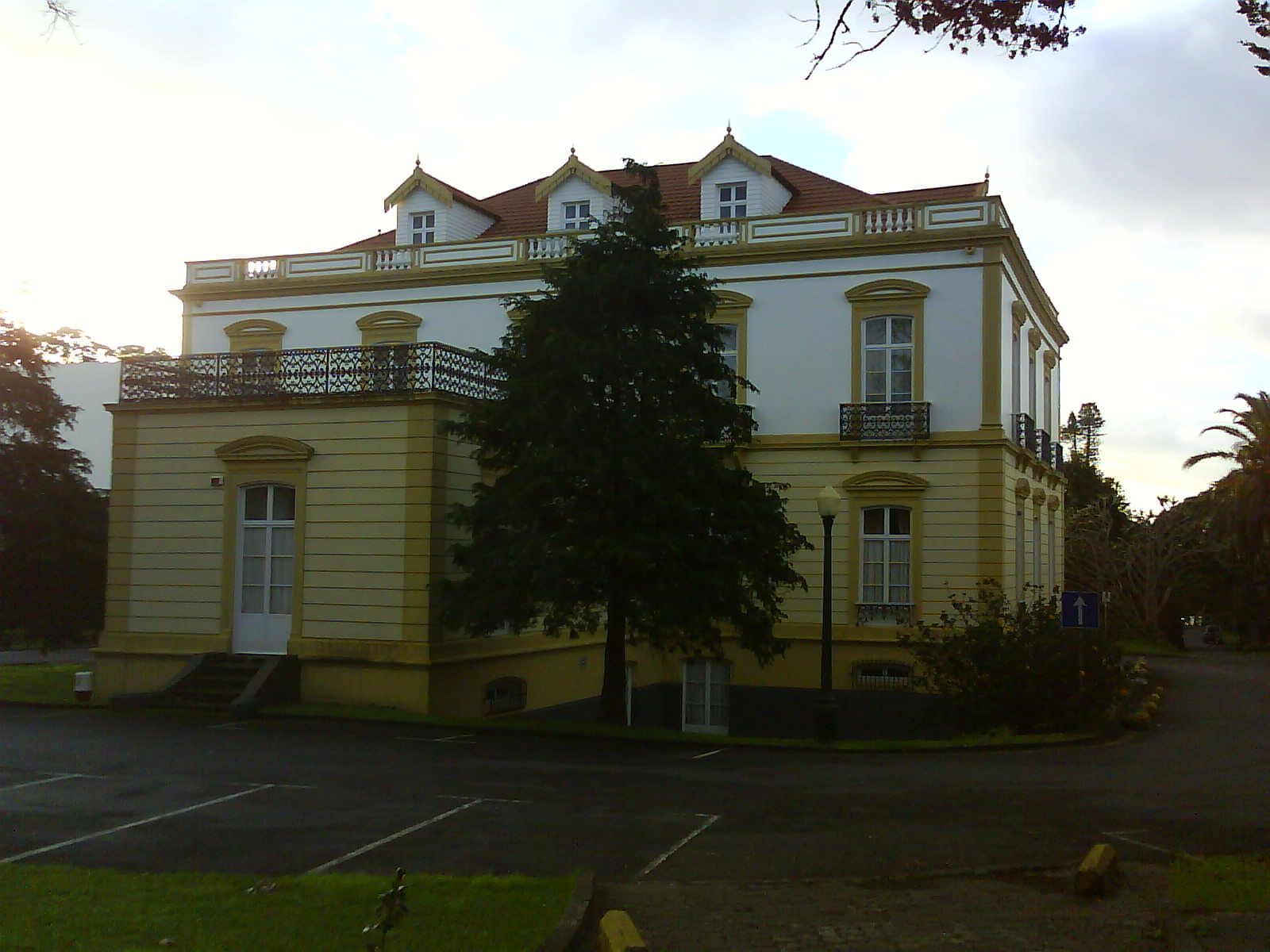 The rectory of the University of the Azores, civil parish of São Pedro, municipality of Ponta Delgada (Azores), Portugal